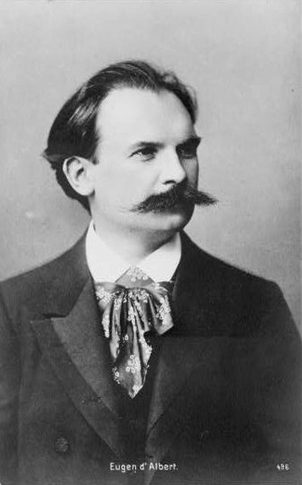 Eugen d'Albert (1864 – 1932), a German pianist and composer